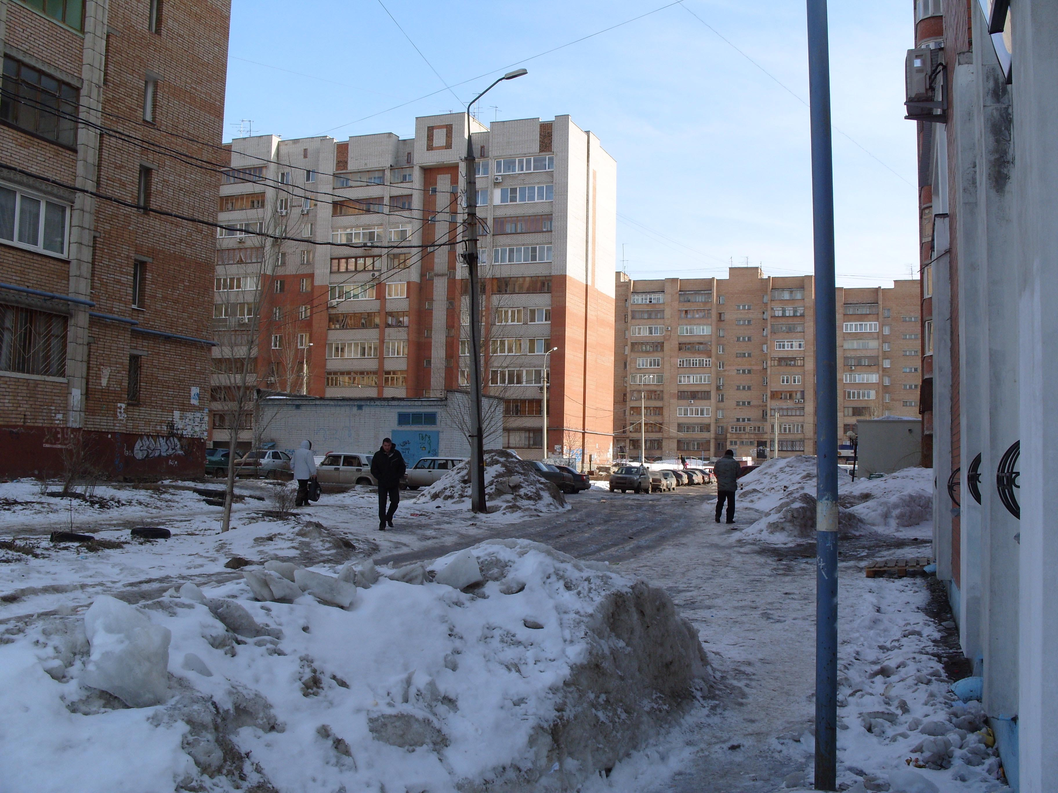 Magnitogorskaya st. in Samara